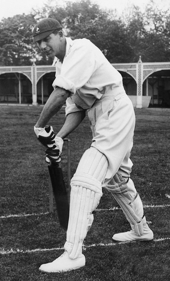 Manfred Susskind of South Africa batting on the Nursery ground at Lord's cricket ground in London, circa May 1924.